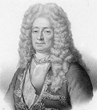 French navy secretrary Victor Marie d'Estrées (1660-1737)